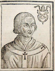 Pope Clemens II., his face